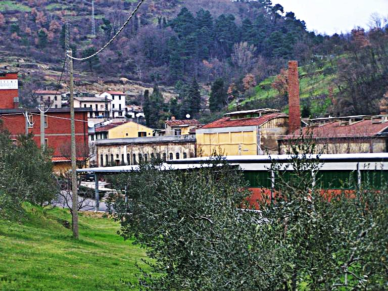 industry